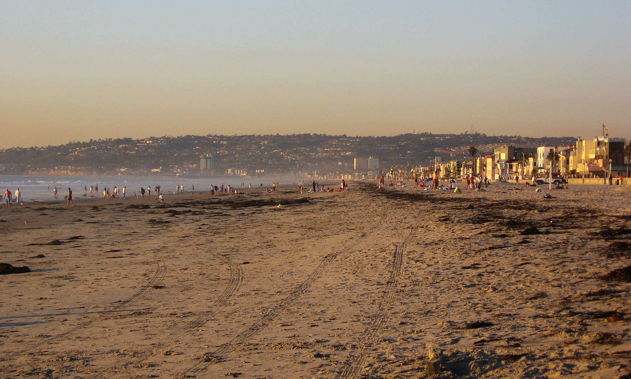 Mission Beach, San Diego, California